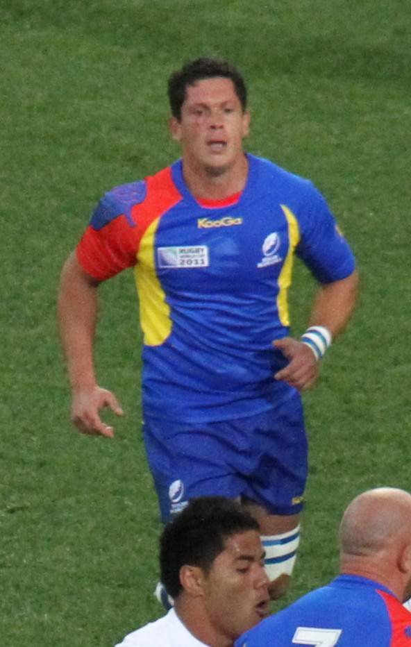 Romanian rugby union player Lucian Sîrbu during 2011 Rugby World Cup match against England.